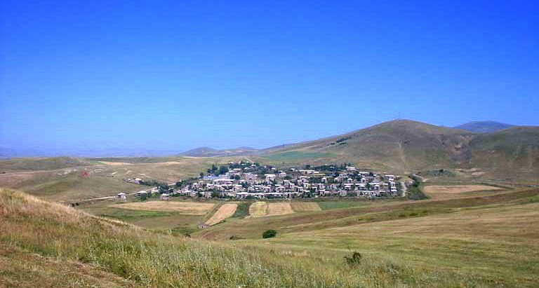 This is Torosgyugh.